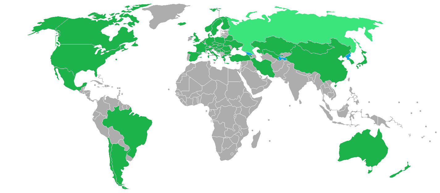 2018 Pyeongchang Winter Paralympics Participants map.